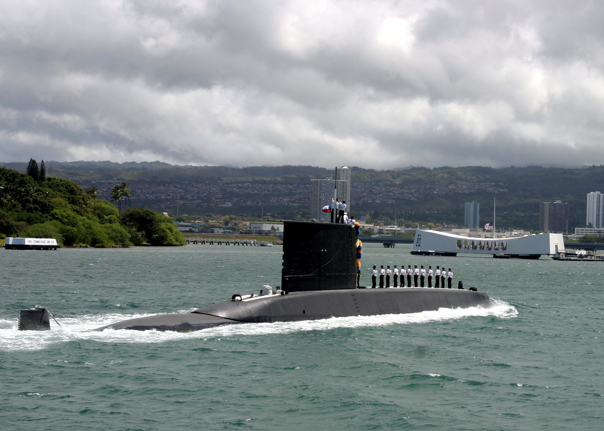 The Chilean submarine Simpson (SS-21) prepares to render honours to the USS Arizona Memorial as the submarine pulls into port in Pearl Harbor, Hawaii (USA), on 21 June 2004. Simpson was scheduled to participate in the 2004 Rim of the Pacific exercise.